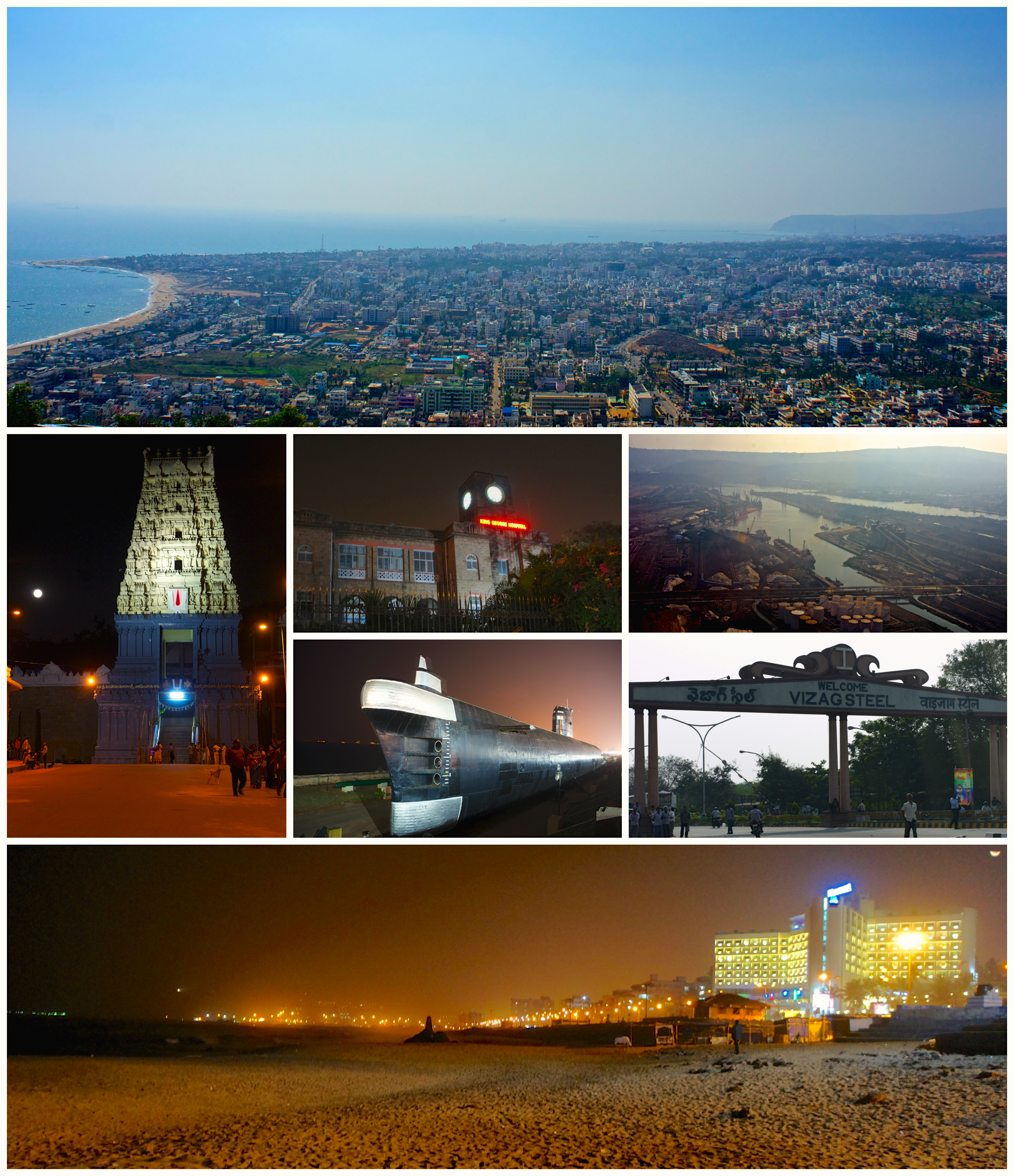 A collage of images of landmarks in the Indian city of Visakhapatnam. Top to bottom, left to right: A view of Visakhapatnam and the Bay of Bengal from Kailasagiri Park, Simhachalam Temple, King George Hospital, Visakhapatnam Port, the Kursura Submarine Museum, the Visakhapatnam Steel Plant, and Ramakrishna Mission Beach The files used in the creation of the image (all created by User:Av9 are